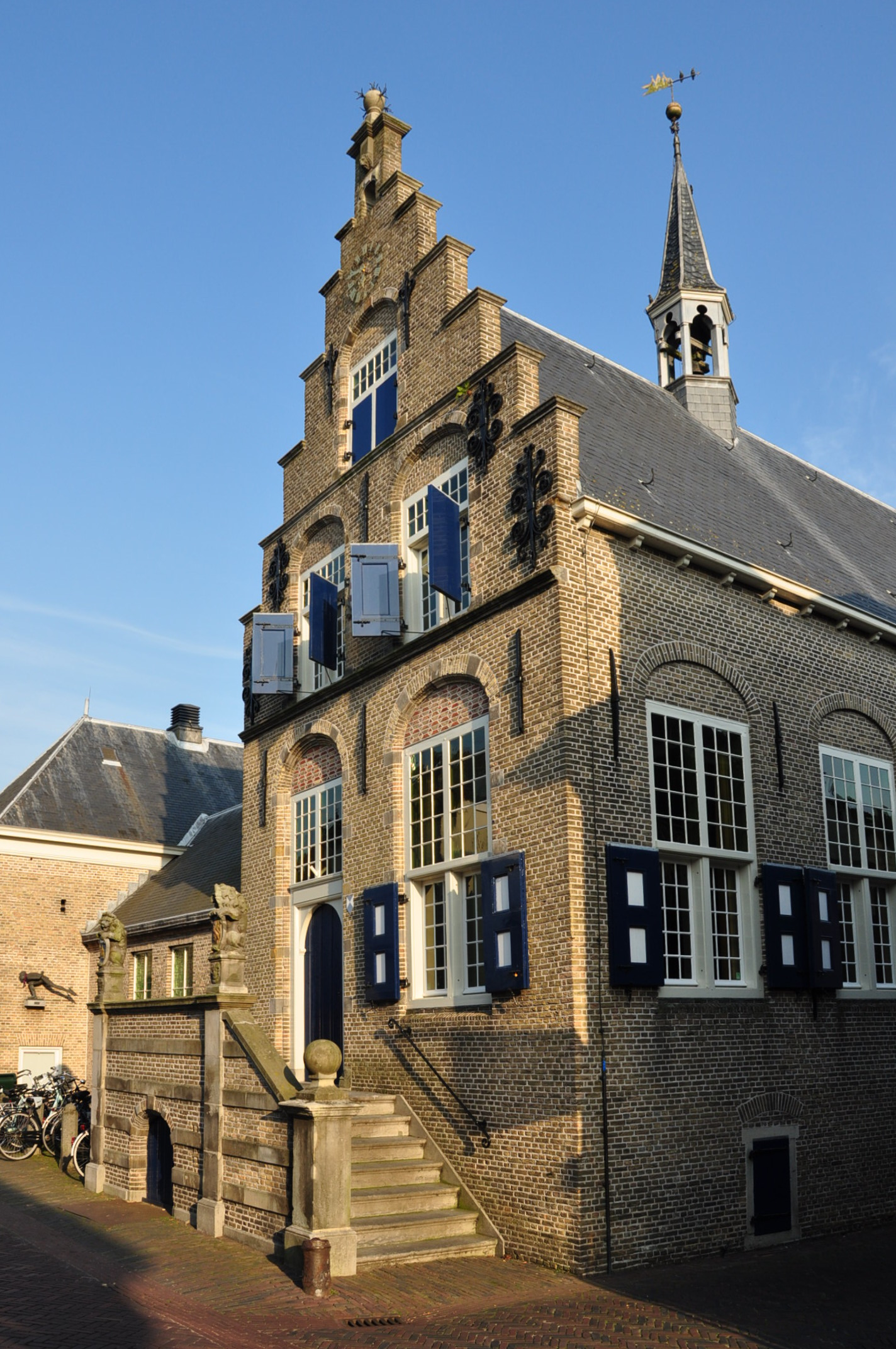 City Hall of Haastrecht (Province of South Holland, Netherlands), a listed renaissance building with gable from 1618, with a small wooden roof tower and platform. Restored in 1907 and 1960.